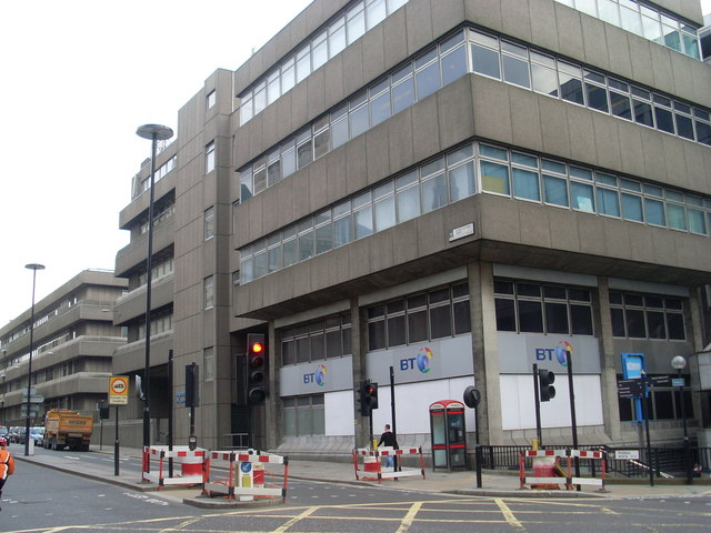 Wood Street Telephone Exchange (1) Situated at Baynard House, 135 Queen Victoria Street, EC4V 4AA, this TE has replaced the former Faraday and Wood Street TEs in the City of London. The former BT Museum can be seen in the foreground.